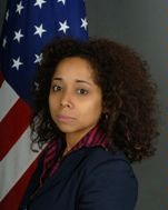 Julissa Reynoso, United States Ambassador to Uruguay.